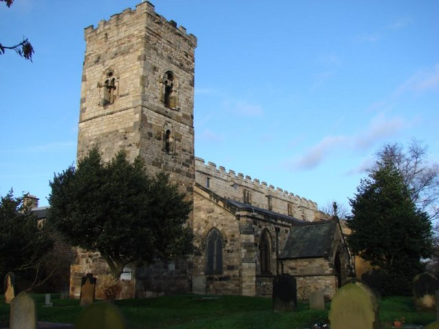 St Cuthbert's parish church, Billingham, County Durham, seen from the southwest